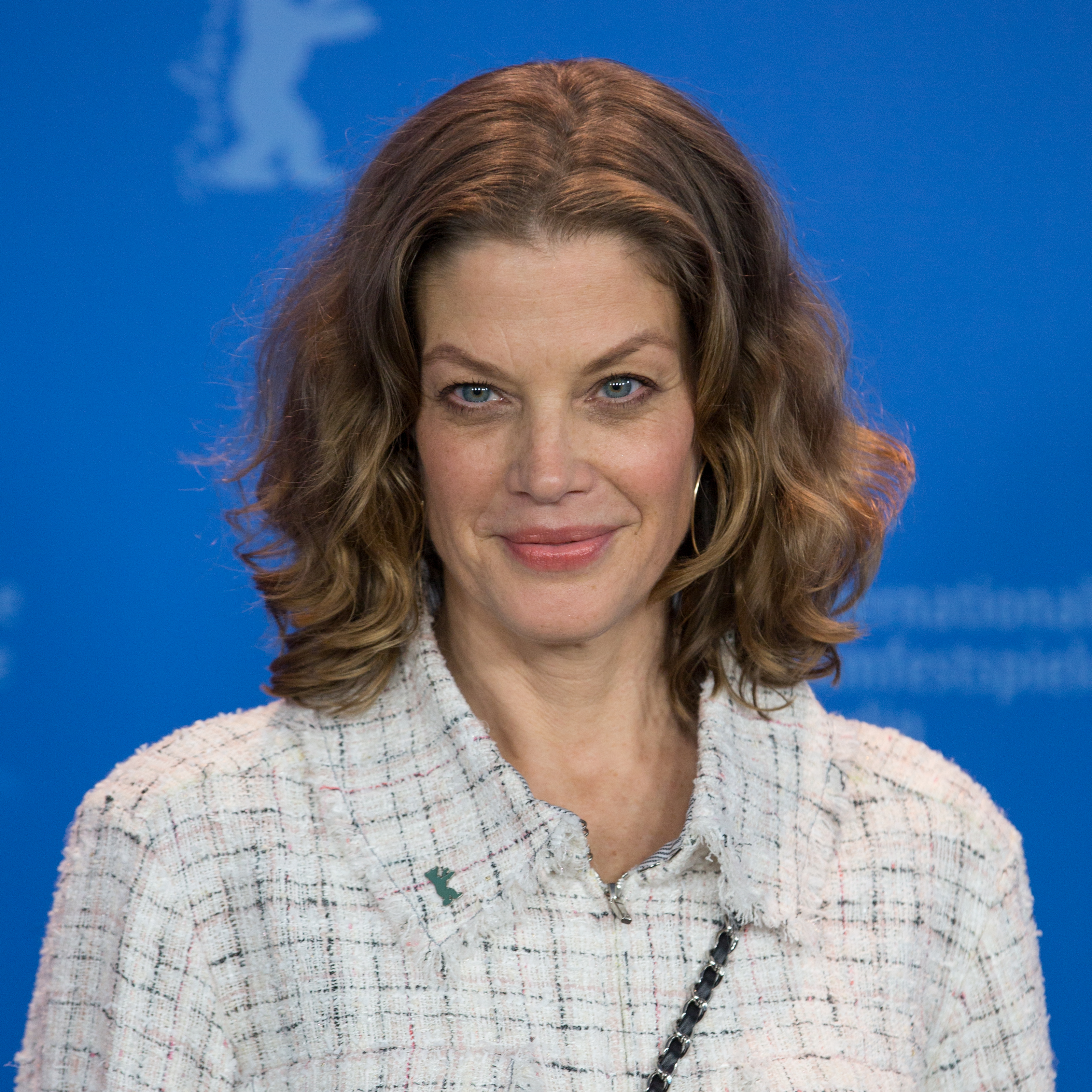 Actor Marie Bäumer at the Berlinale 2018